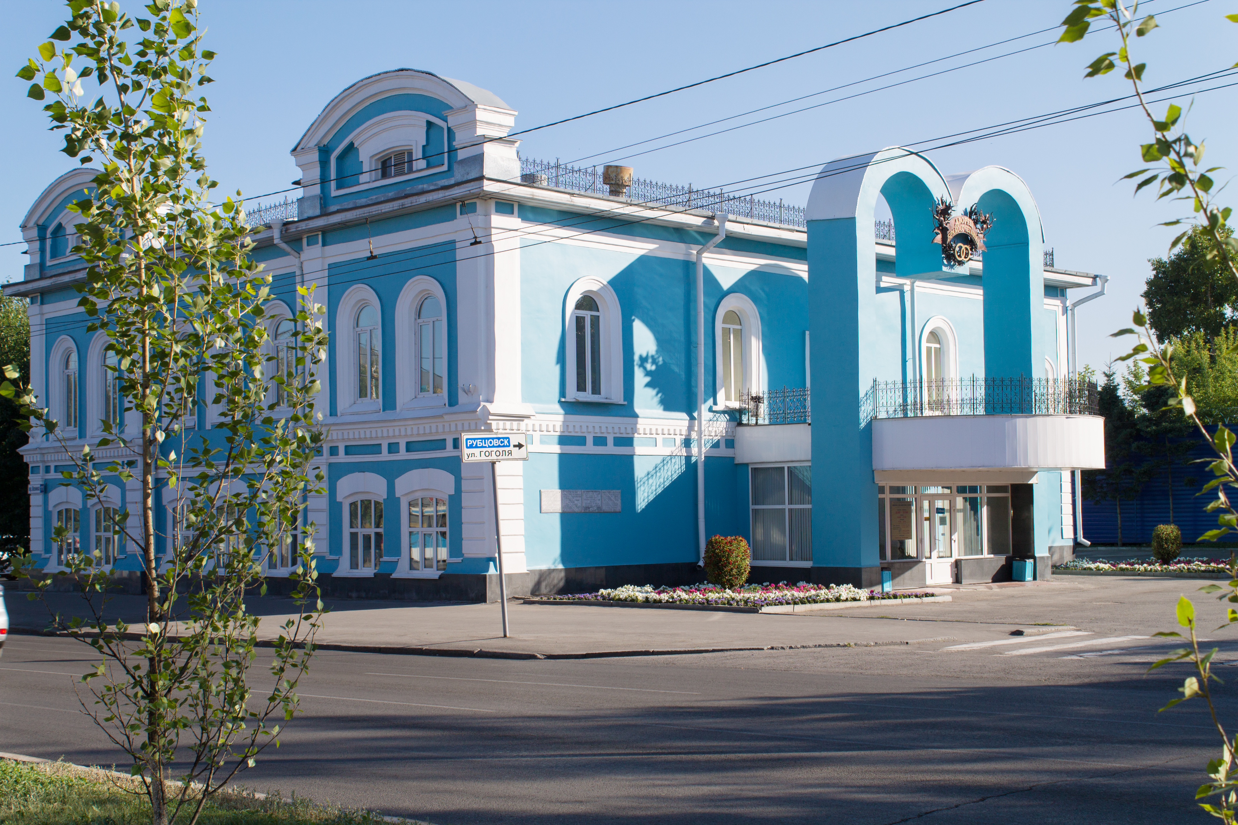 Wedding Palace, Barnaul